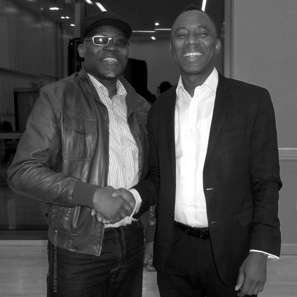 Presidential Candidate Omoyele Sowore with supporter in Luton, United Kingdom, during a Fundraiser on 10th November, 2018.